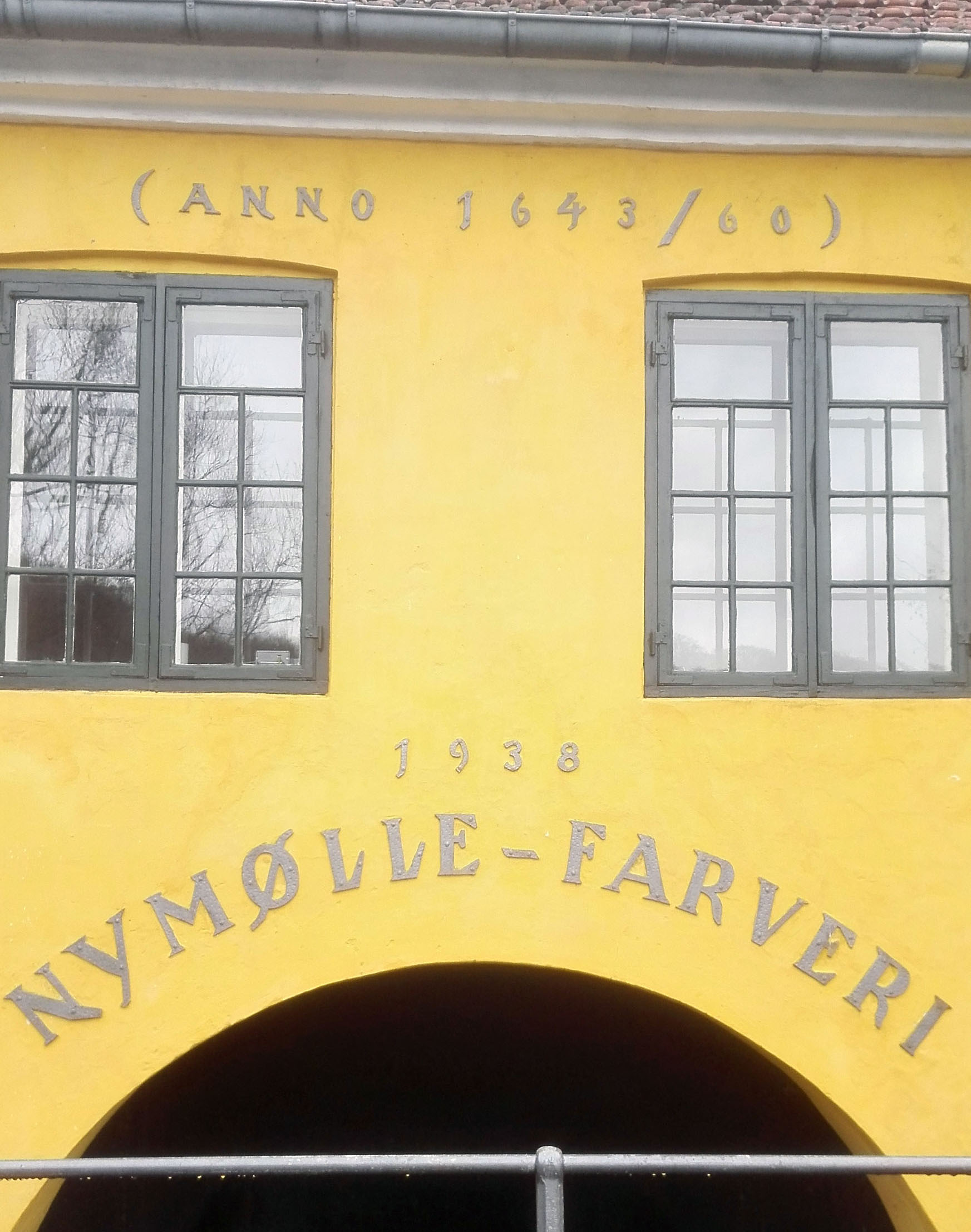 Main building of Nymøllen.